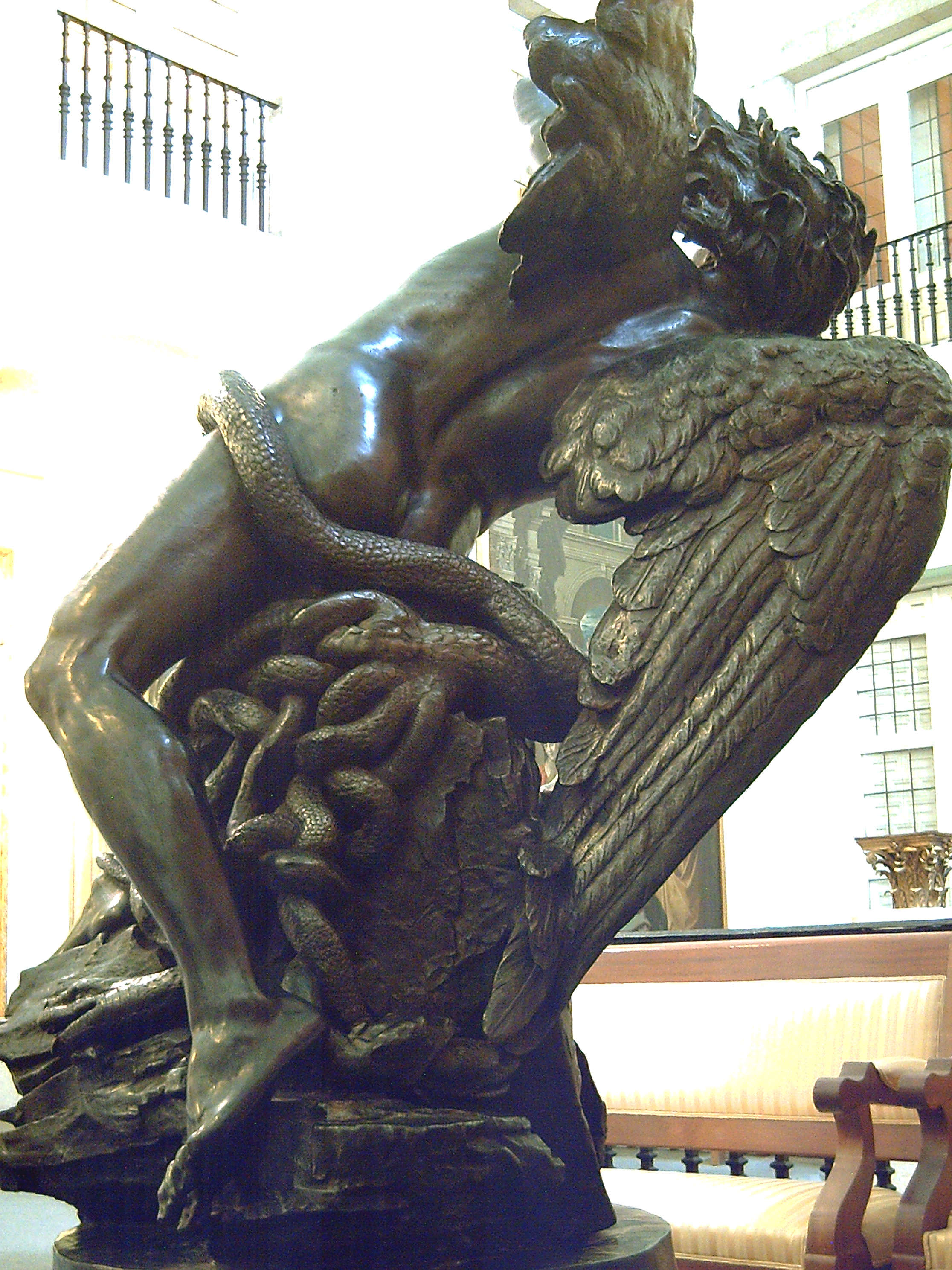 Rear view.